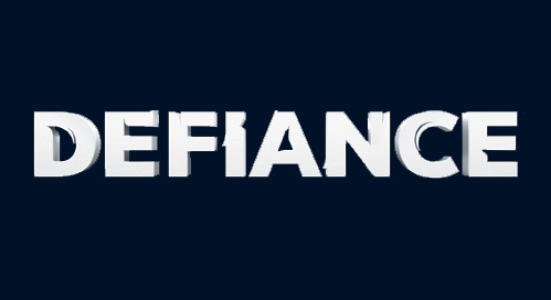 Defiance Logo